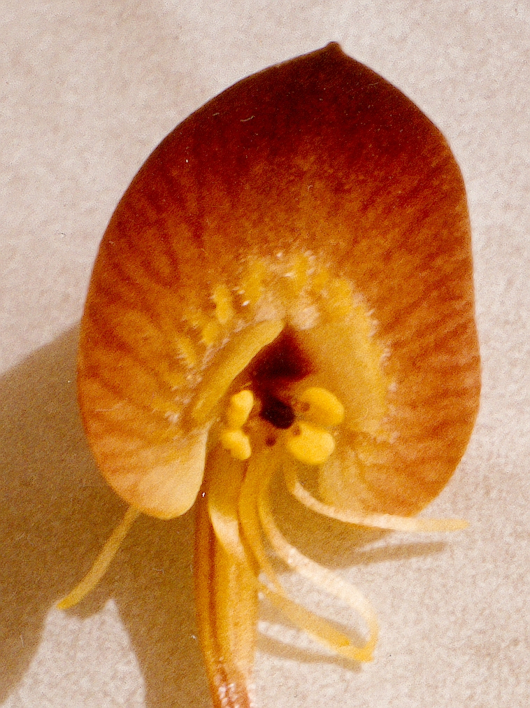 Corsia spec. II (not fully determined). Papua New Guinea, Western Highlands, Minj Subdistrict, Mt. Hagen area. Foothills near Jimmi [Jimi] divide, above Jimi Valley Road to Jimi Divide, mid-montane secondary forest, ca. 1.730 m